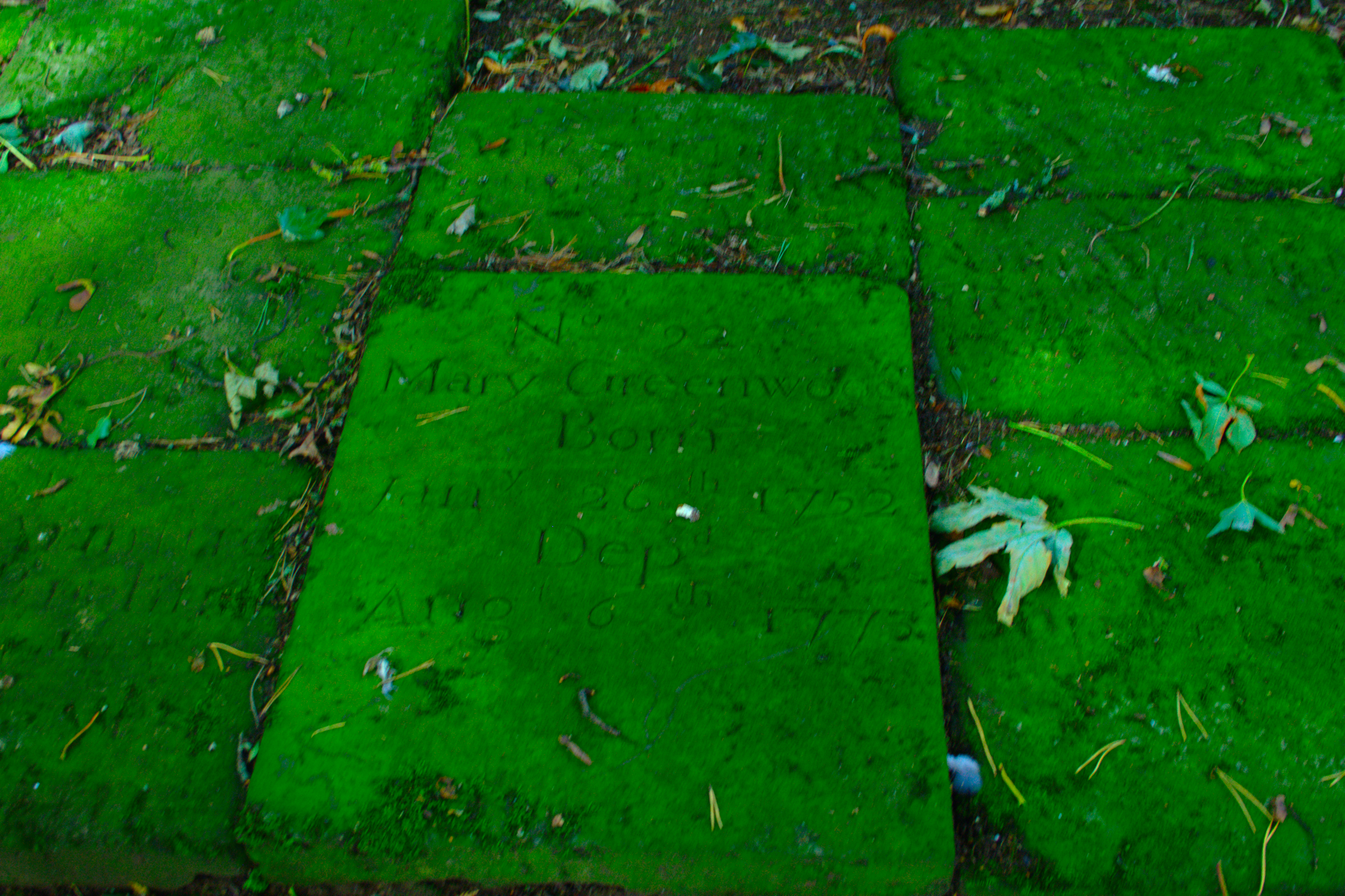 Early Memorials In Graveyard Of Moravian Church Gracehill Ballymena Co.antrim Wikidata has entry Q17778176 with data related to this item.